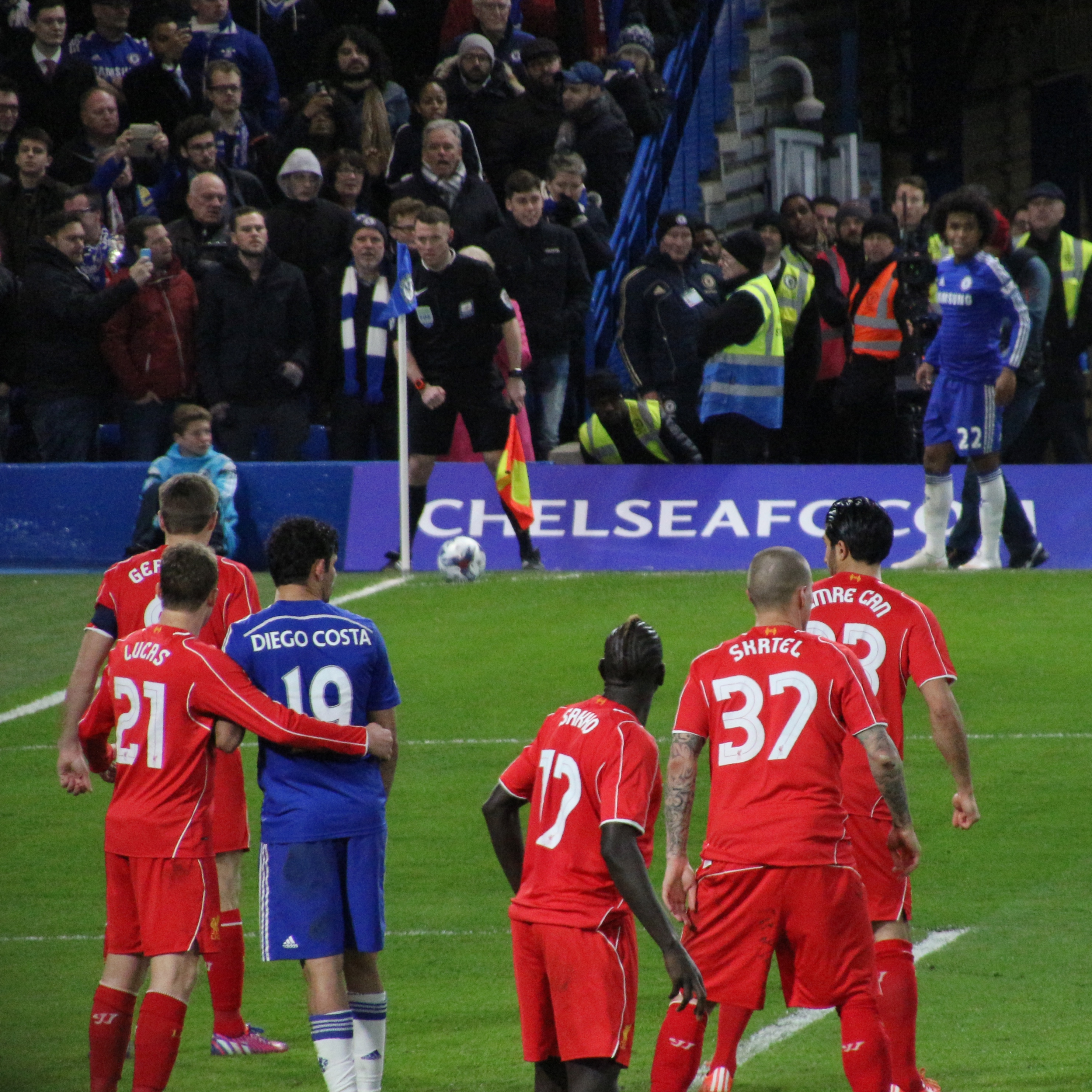 Chelsea 1 lLiverpool 0 (2-1 agg) Capital One Cup semi final 2nd leg On our way to Wembley!